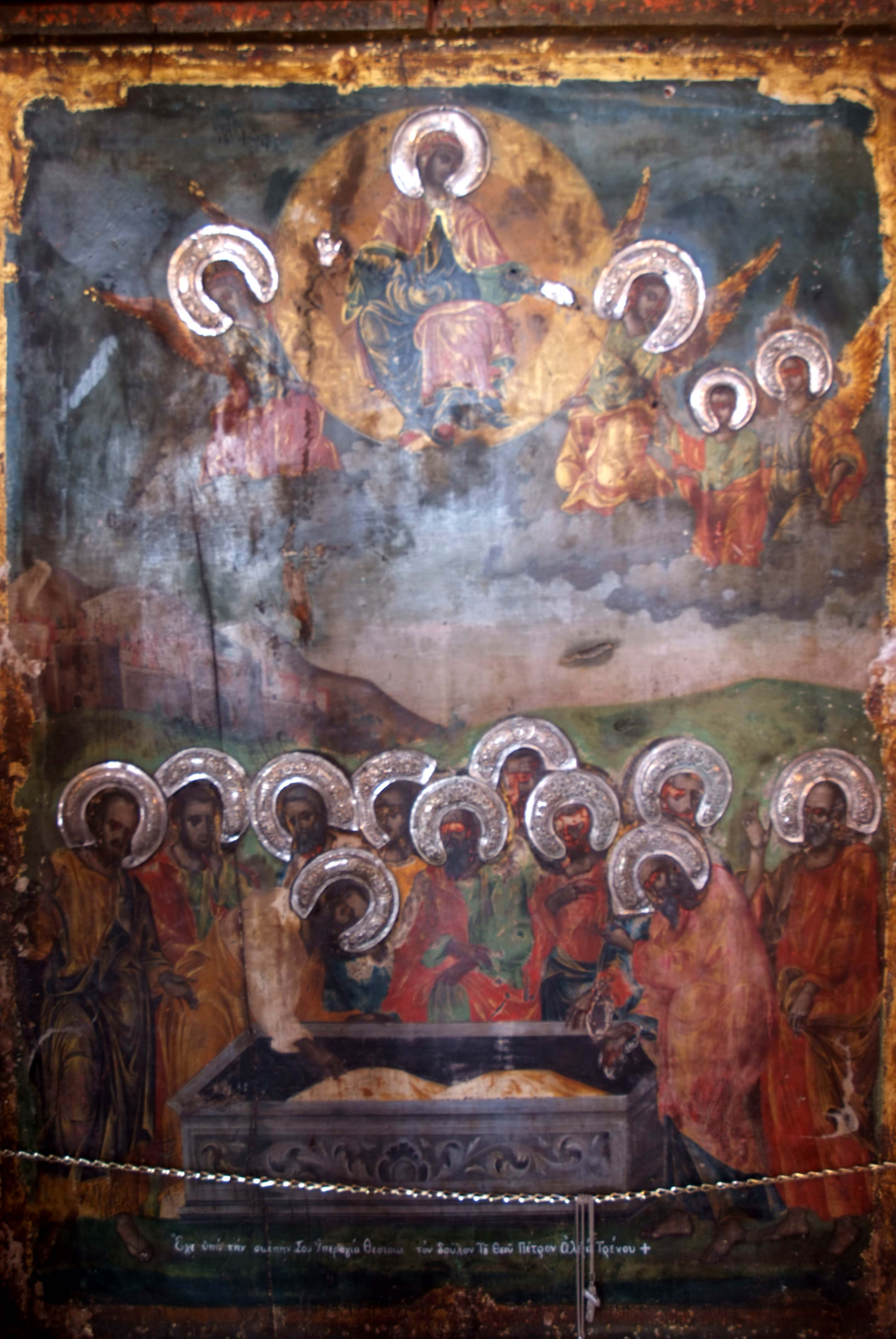 Saint Zona Icon 18 Century